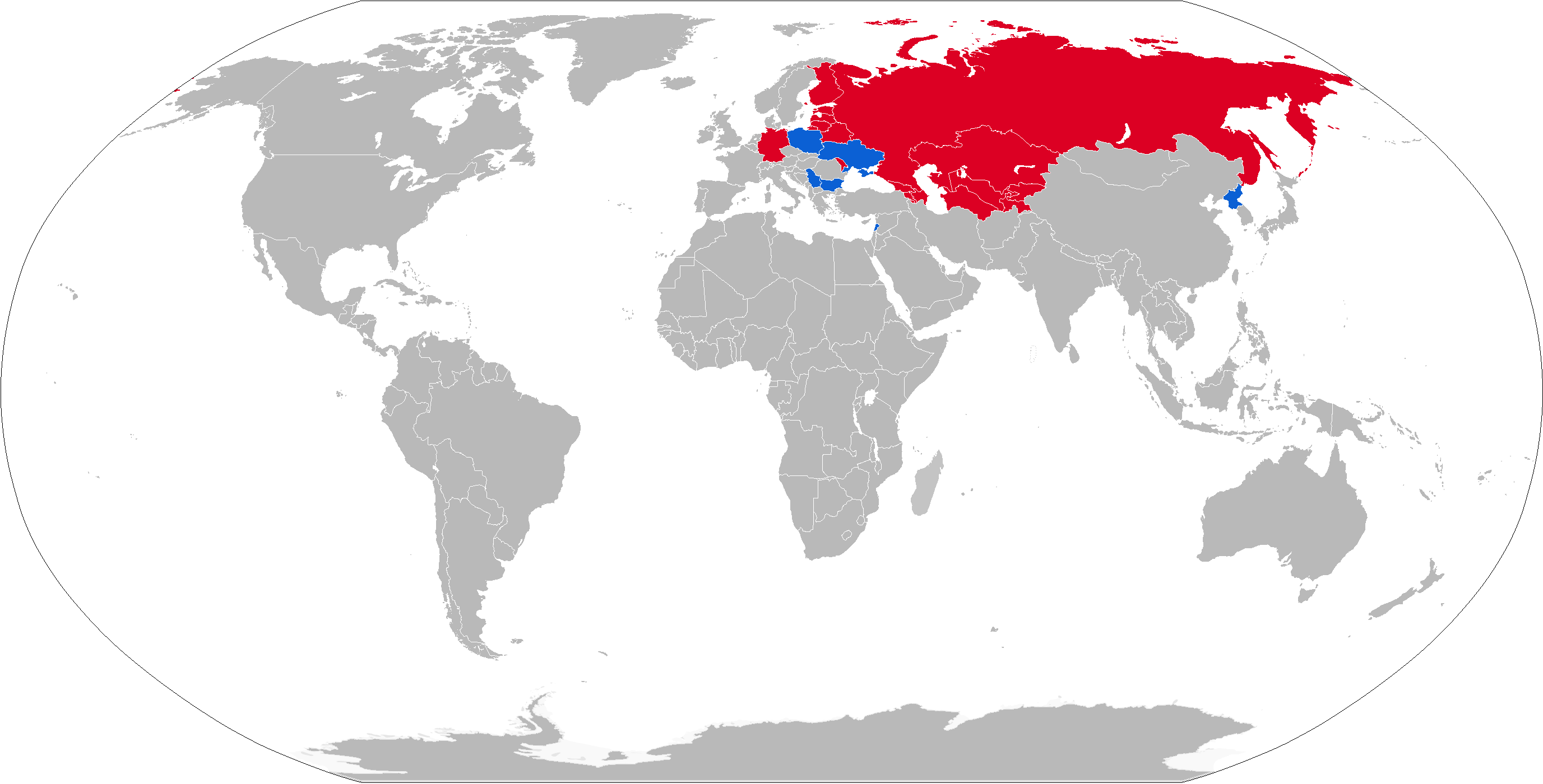 Map with KrAZ-255 operators in blue with former operators in red